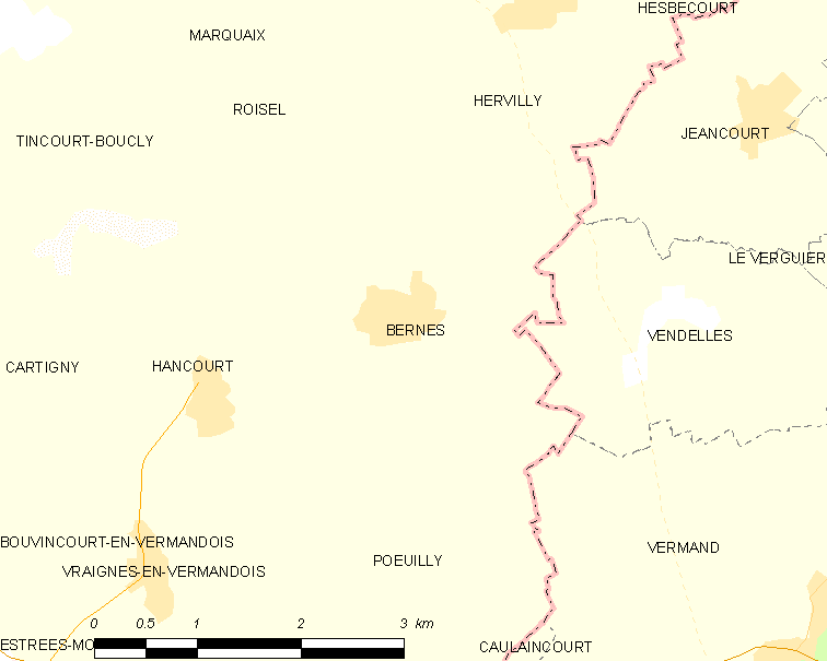 Map of French municipality Bernes